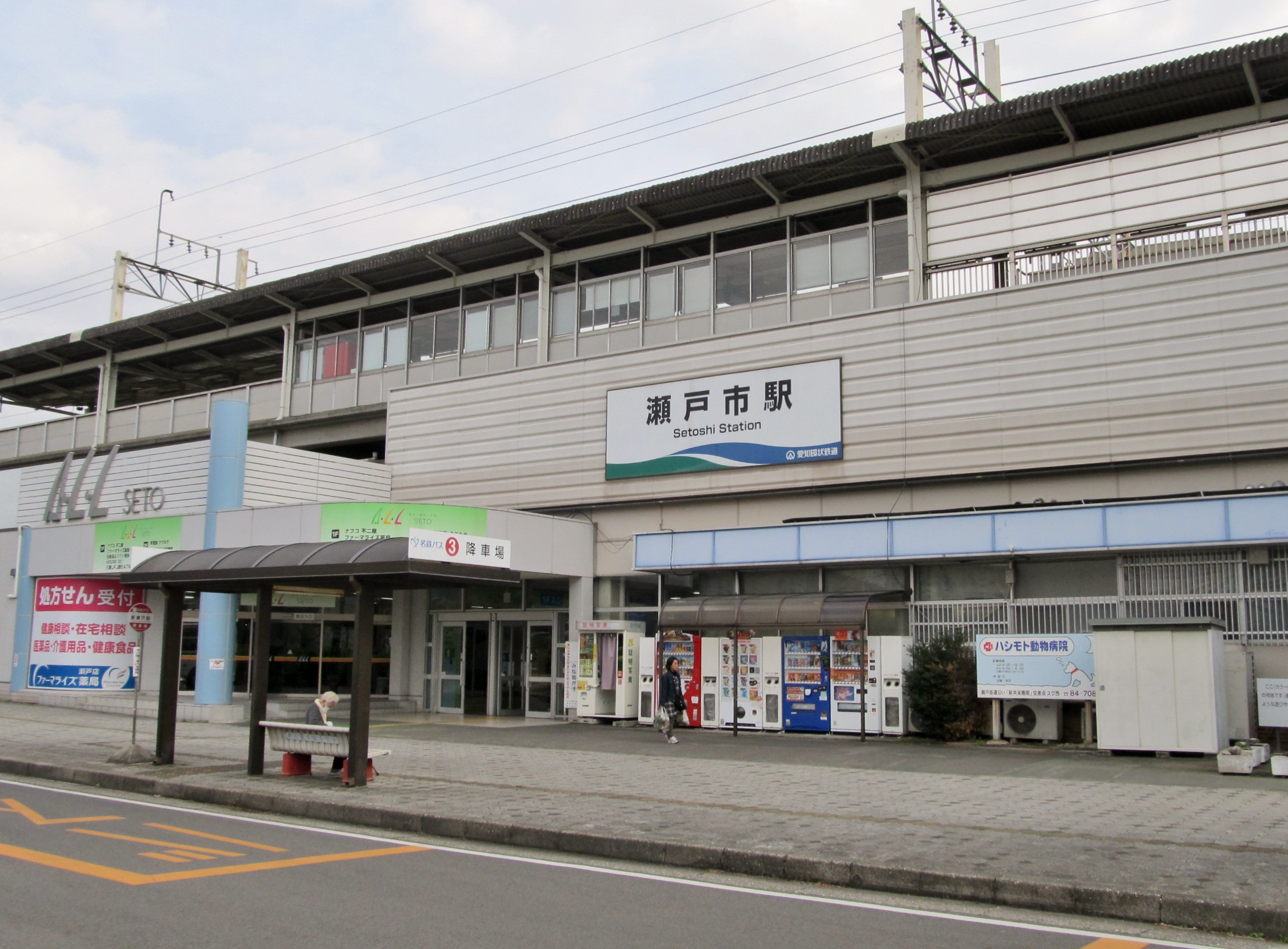 Aichi Loop Line Setoshi Station West Gate